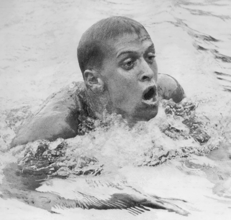 1962 Press Photo Ted Stickles Breaststrokes During National AAU Meet - sps11561